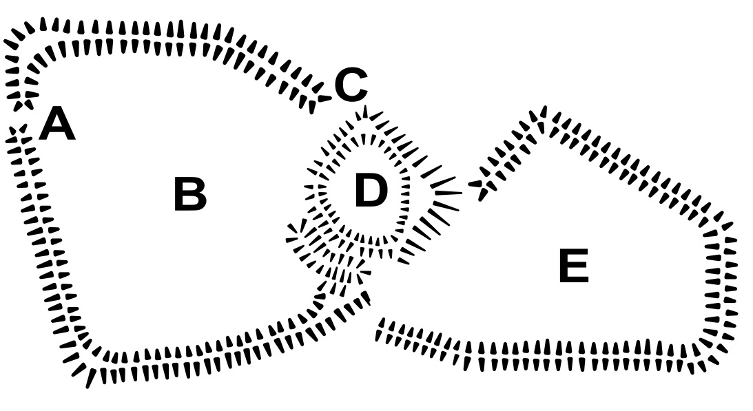 Deddington Castle earthworks; after Iven 1984 and official scheduled listing